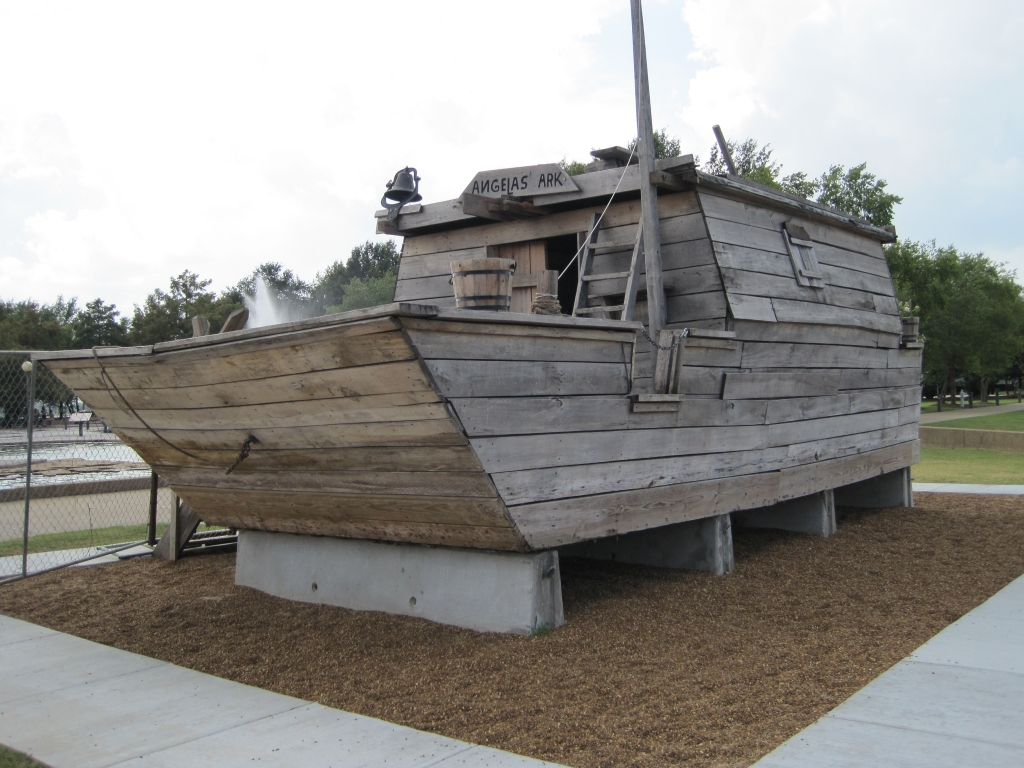 25 foot long replica of a flatboat in which Abraham Lincoln floated down the river as a young man. Replica was built 2004 and was acquired by the Mississippi Riverpark and Museum, Memphis, Tennessee in 2010. A Flatboat is a large flat bottom wood boat. Commercial Appeal, Memphis, TN